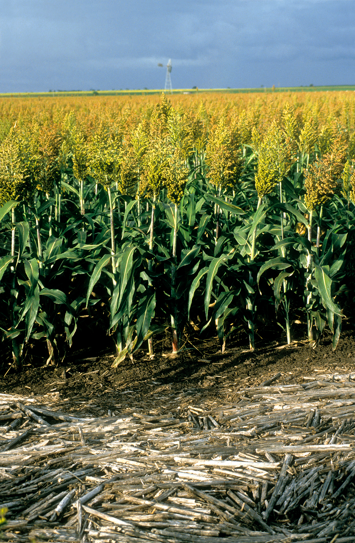 Sorghum crop near the coastal town of Ayr in central Queensland. 1992.